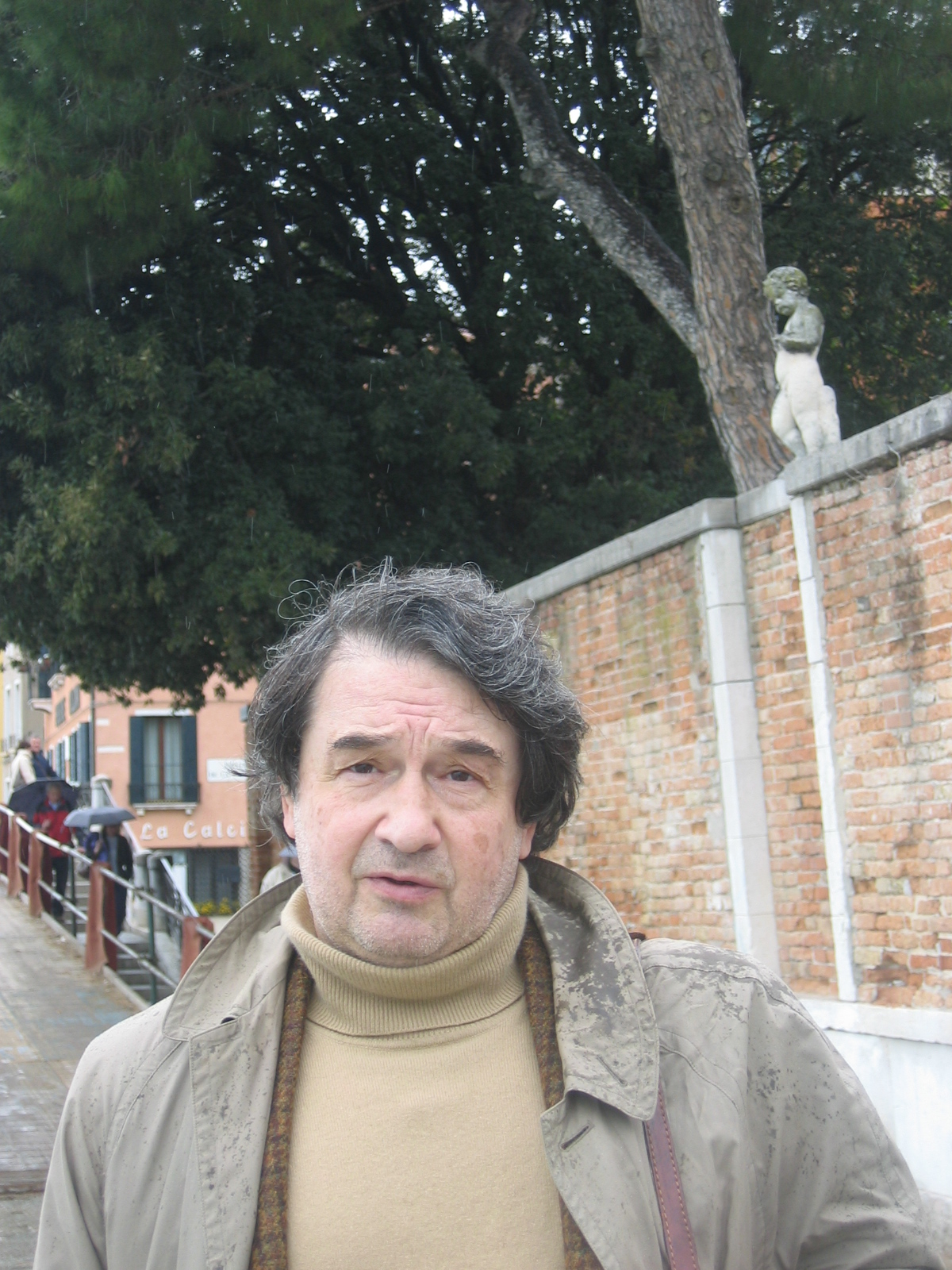 Jury Galperin